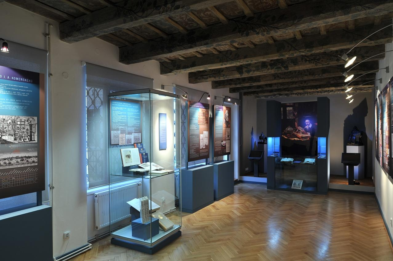 Pedagogical museum of J. A. Comenius in Prague - part of permanent exhibition - life and work of J. A. Comenius